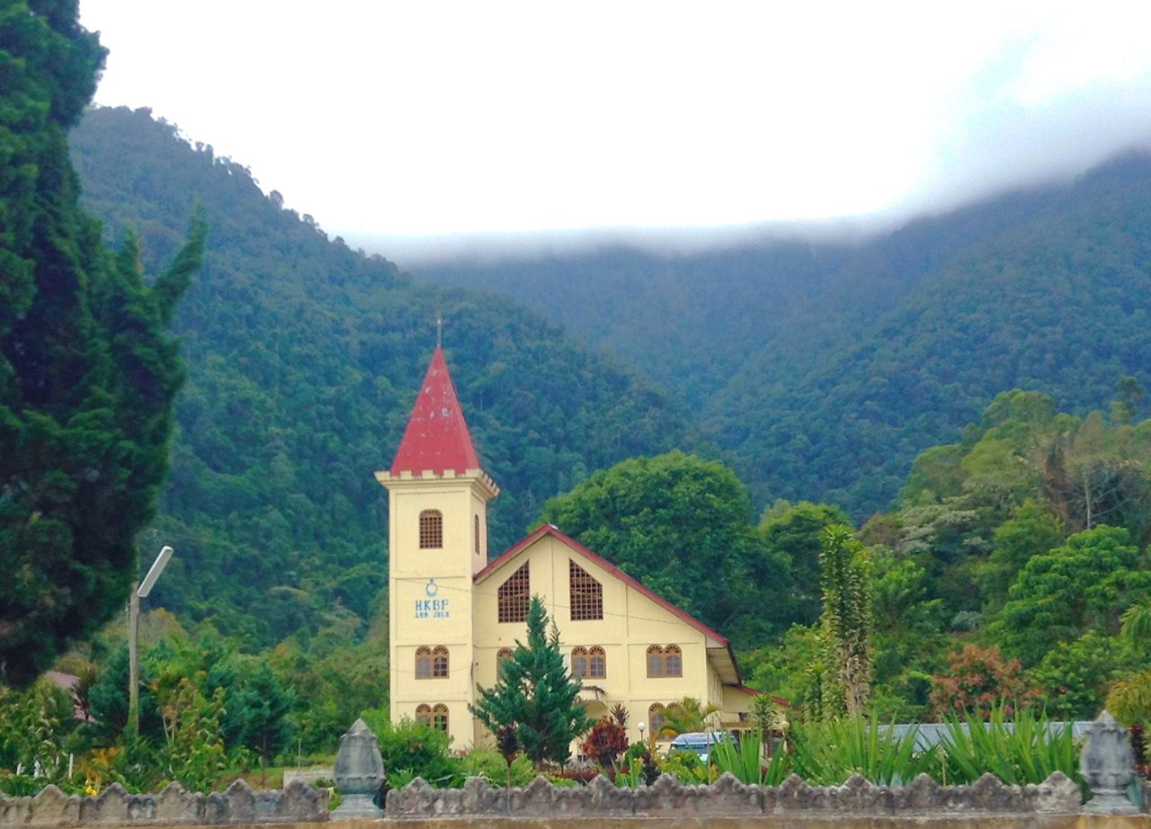 HKBP Lumban Julu, Church in Jumban Julu, Toba Samosir